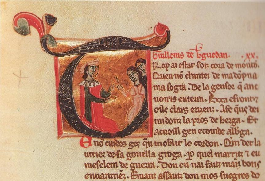 Miniature of Guilhem de Berguedan with two ladies, from the vida in chansonnier I.